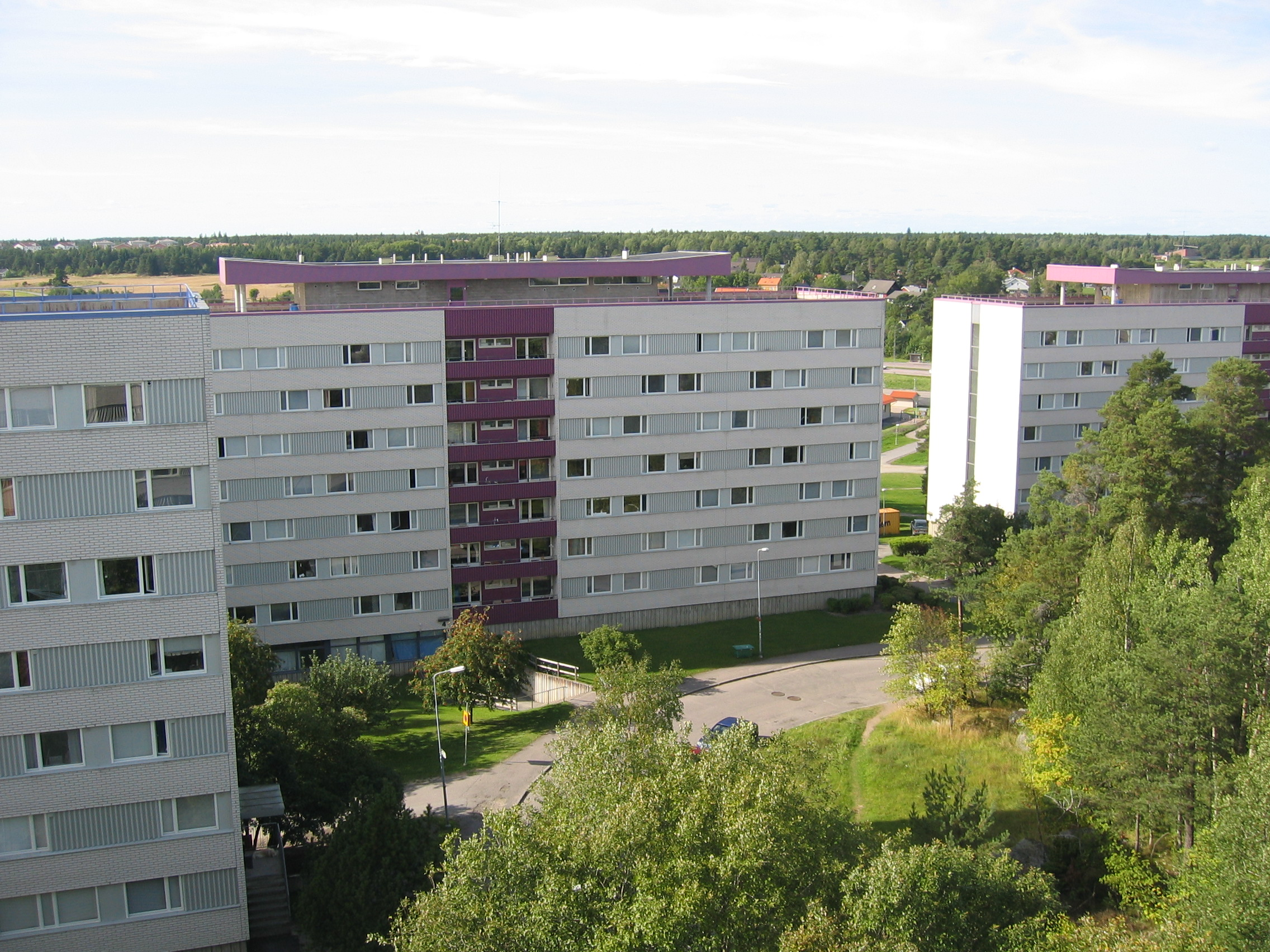 Flogsta in the city of Uppsala, Sweden. Most of the inhabitants of Flogsta are students attending Uppsala University or the Swedish University of Agricultural Sciences.